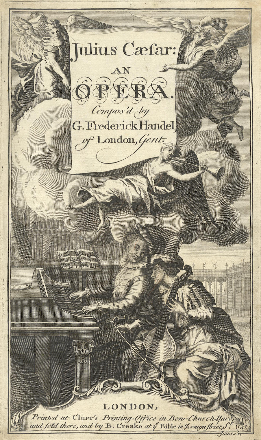 George Frideric Handel's opera Giulio Cesare in Egitto (Julius Caesar in Egypt) (HWV 17). First edition manuscript published by Cluer in 1724.